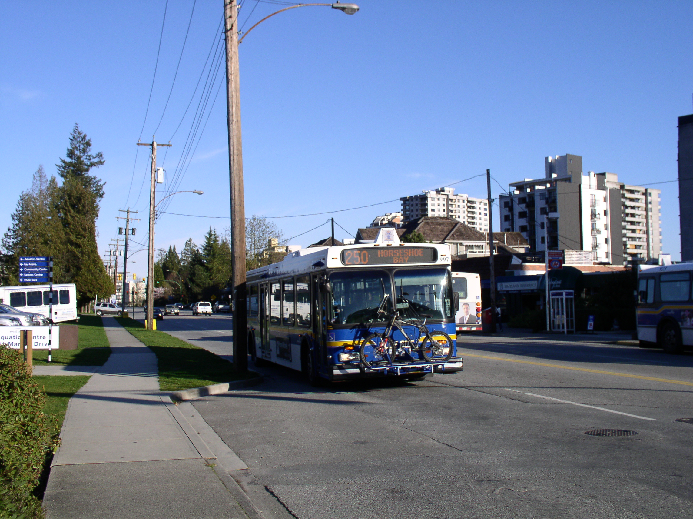 West Vancouver Blue Buses, with bike rack at the front (count them, there's 3 there) other_versions